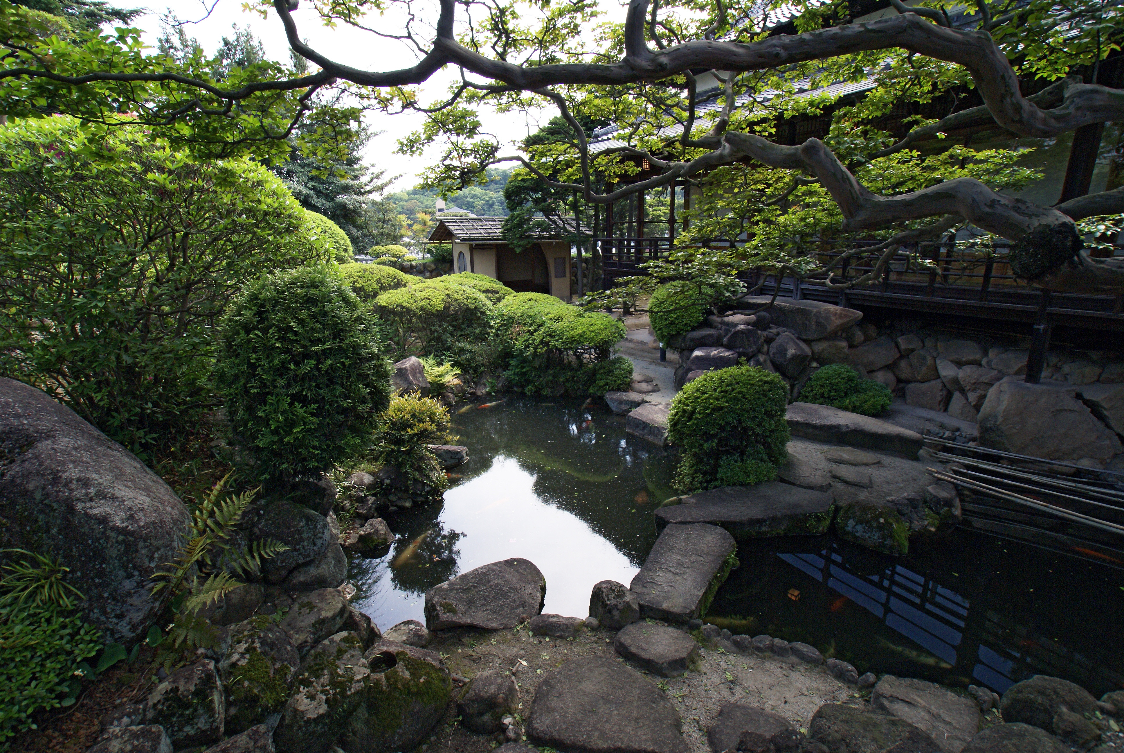 Himeji City Museum of Literature in Himeji, Hyogo prefecture, Japan